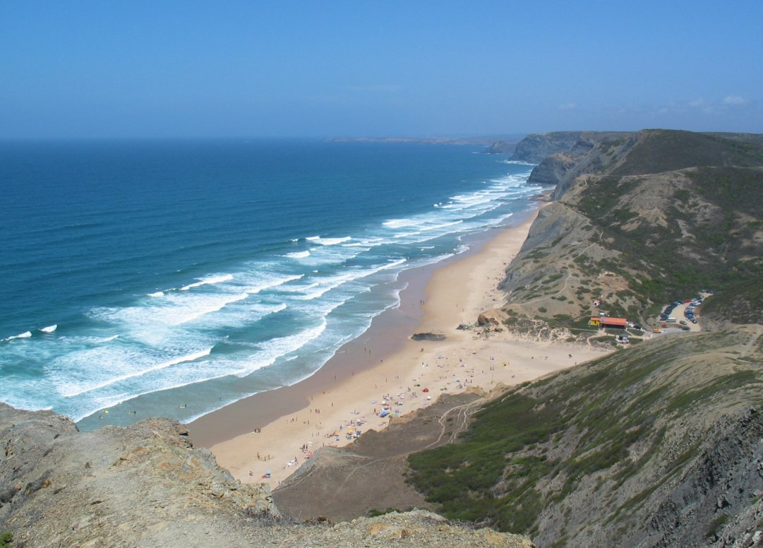 Praia da Cordoama seen from Miradouro da Cordoama